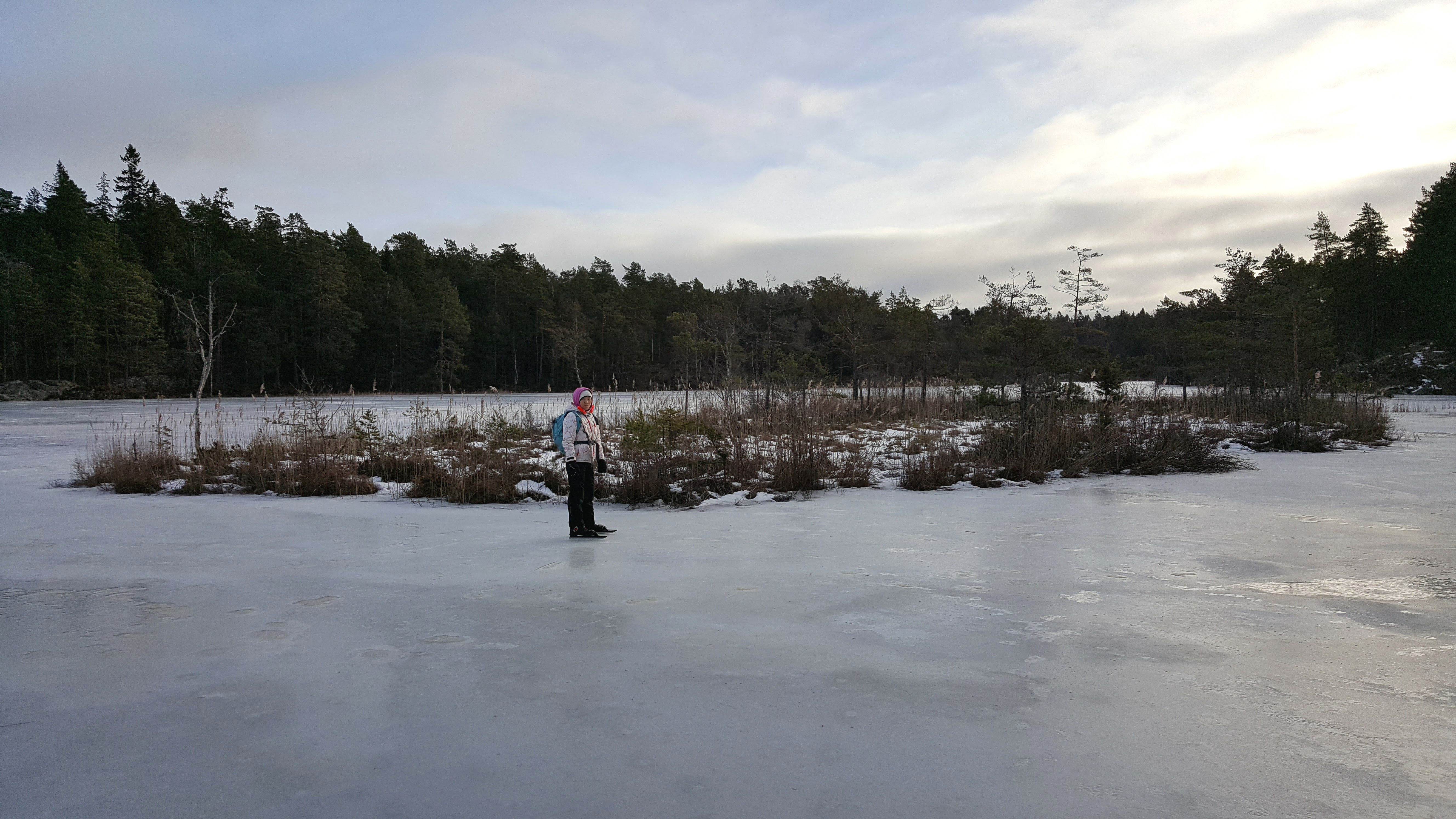 Floating island in Lake Dammsjön, Nacka municipality, Stockholm, Sweden.